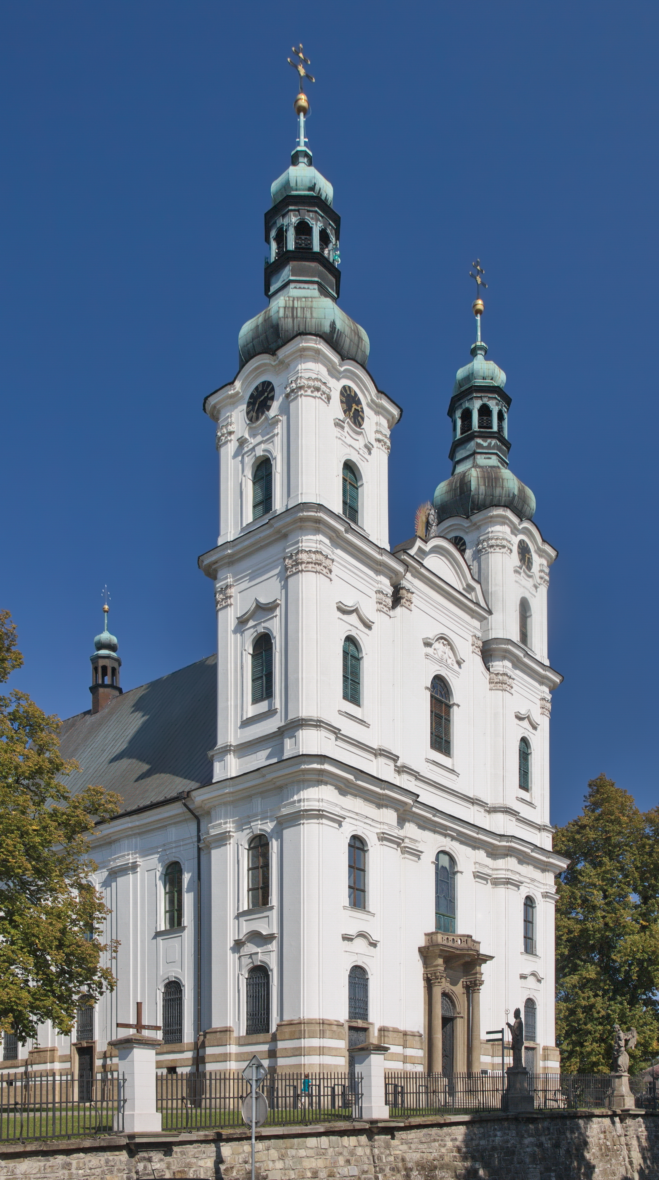 Basilica of the Visitation of Our Lady, Mariánské náměstí, Frýdek-Místek. Moravian-Silesian Region, Czech Republic.